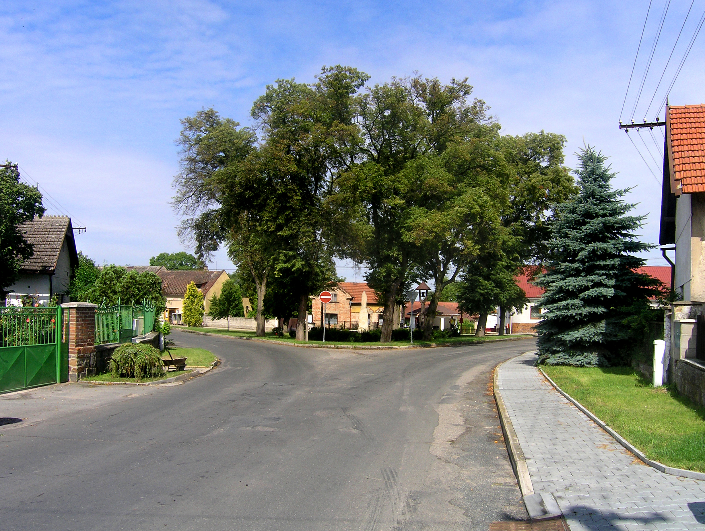 Common at Němčice, Czech Republic